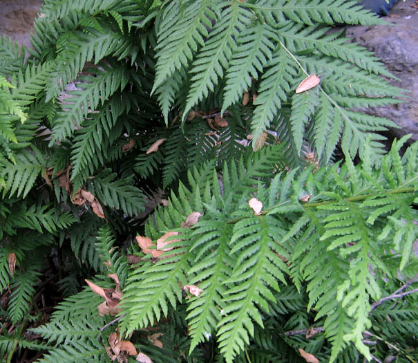 Woodwardia fimbriata — Giant chain fern. In the Santa Monica Mountains National Recreation Area, Southern California. NPS photo, No copyright.